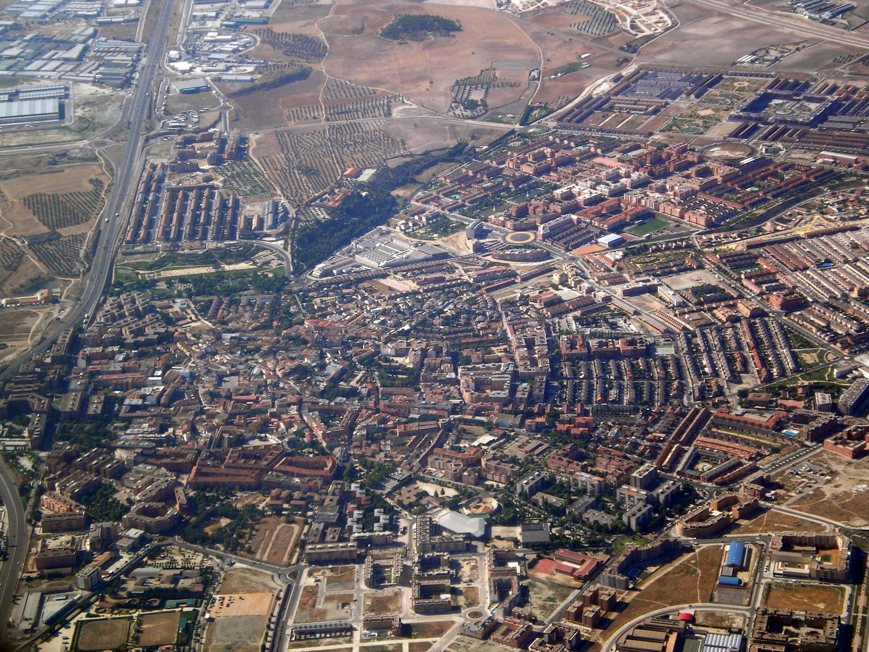 Aerial view of Valdemoro, in the Community of Madrid, Spain